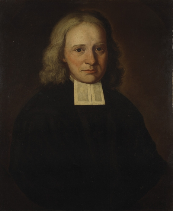 "Reverend James Pierpont," oil on canvas, painted by the 'Pierpont Limner," 1711. Rev. James Pierpont was a Congregationalist minister who is credited with the founding of Yale College. He married Mary Hooker, granddaughter of Rev. Thomas Hooker, chief founder of the Connecticut Colony. 31 in. x 24 7/8 in. Courtesy of the Yale University Art Gallery, Yale University, New Haven, Conn.